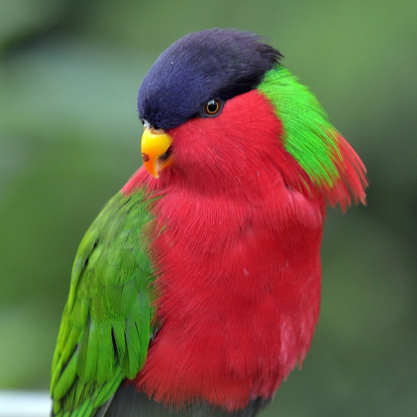 Collared Lory (Phigys solitarius) at San Diego Zoo, USA.